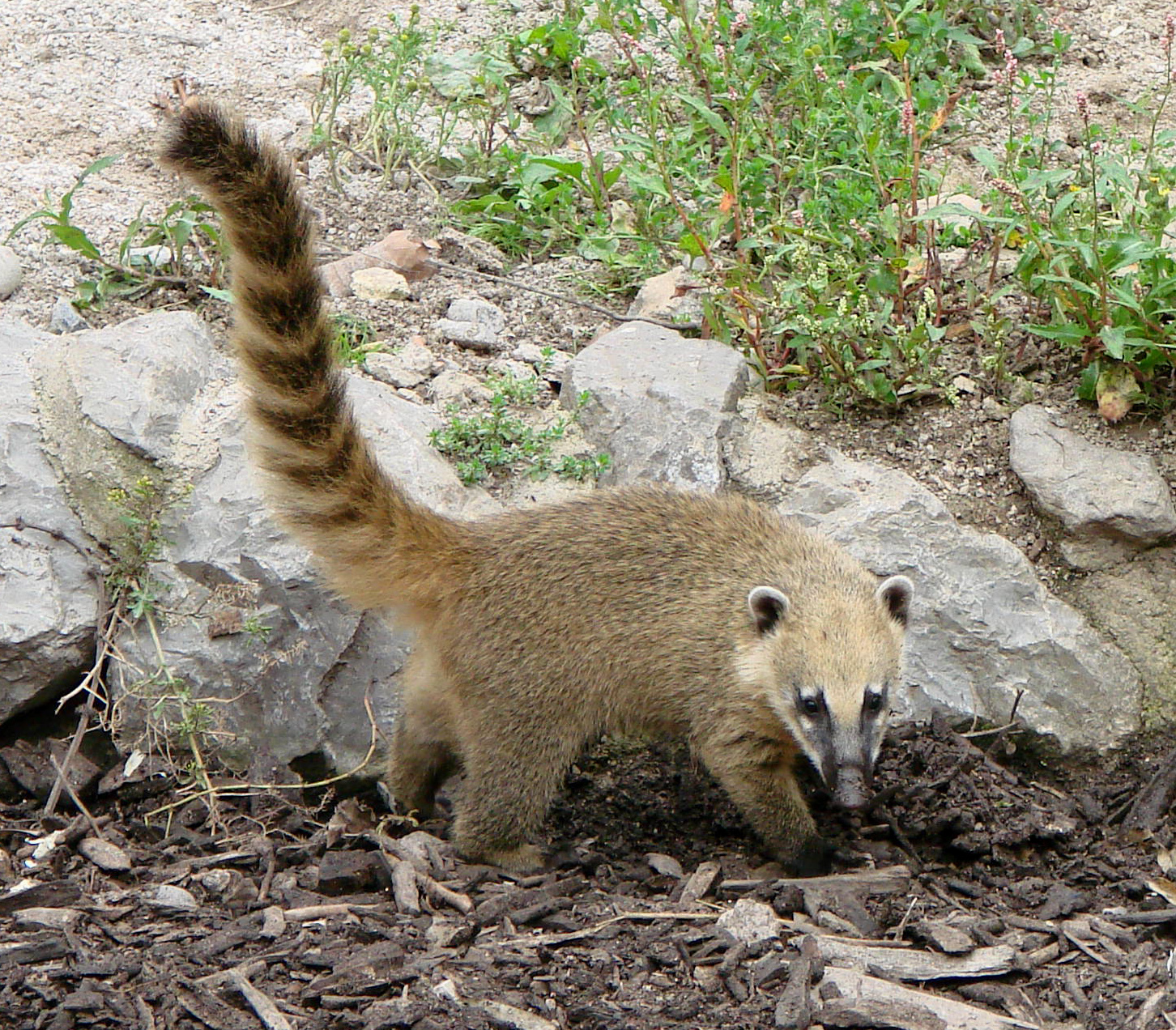 A young Ring Tailed Coati (Nasua nasua). Amiens Zoo.